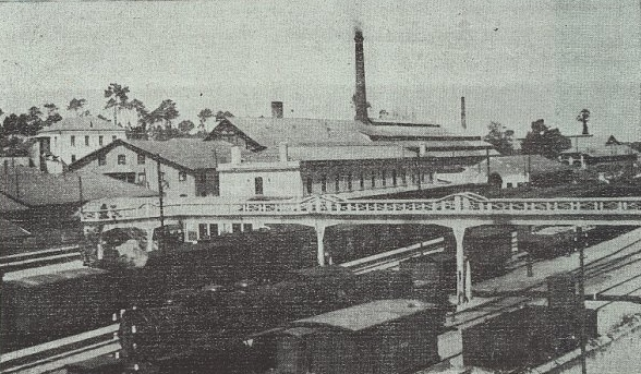 Pampilhosa Railway Station, on the Norte Railway, in Portugal. This image was published on the Gazeta dos Caminhos de Ferro magazine no. 1340, of the 16th October 1943, and scanned by the Hemeroteca Municipal de Lisboa.